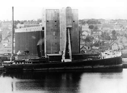 A historic photograph of the steamer George Spencer